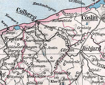 Detail from a map of Pomerania.